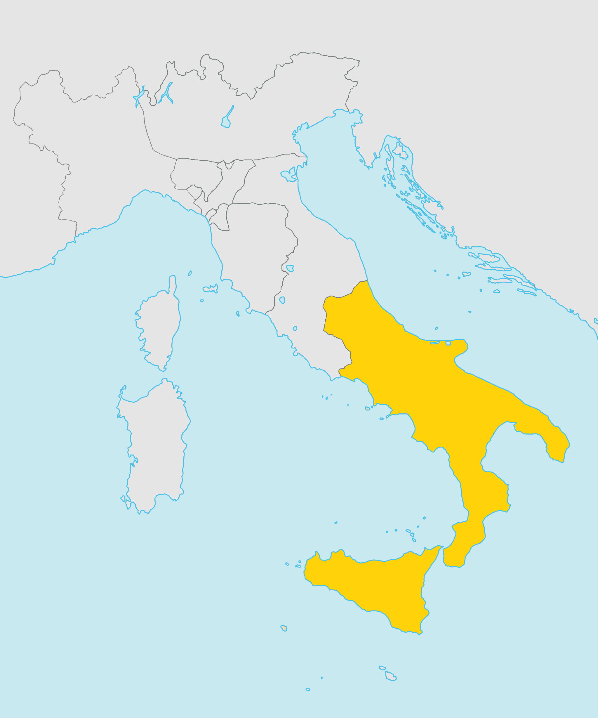 The Kngd. of Two Sicilies within Italy